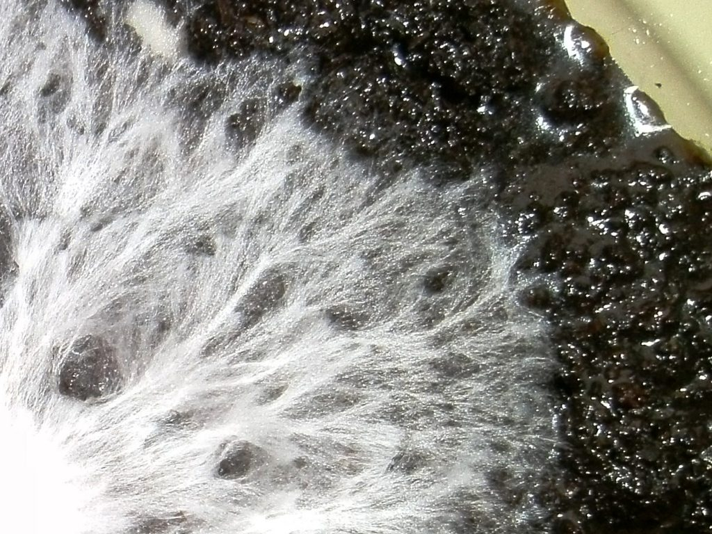 Oyster mushroom (Pleurotus ostreatus) mycelium growing on coffee grounds in a petri dish